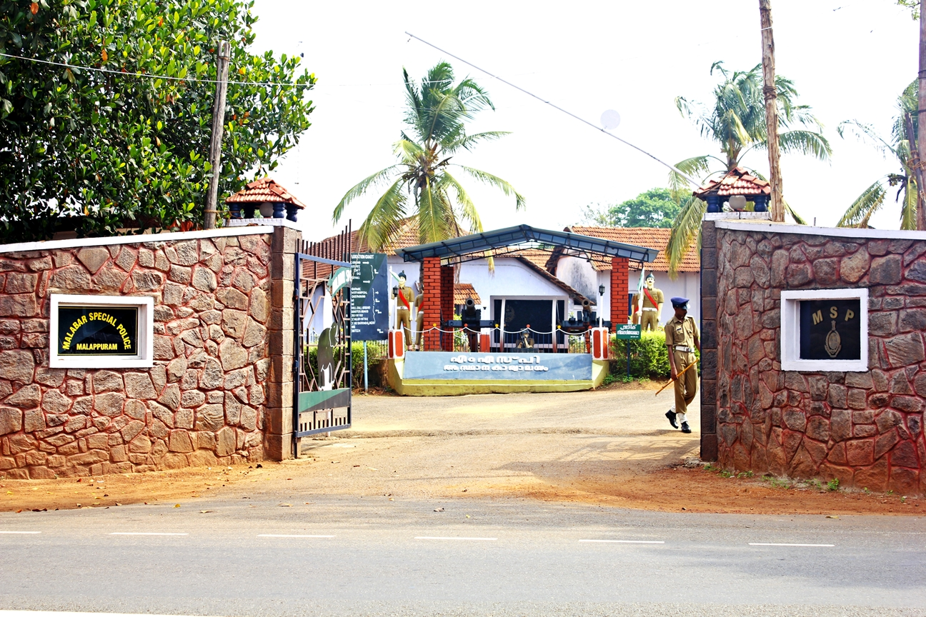 Malabar Special Police, India's second best paramilitary force after Assam rifles is head quartered at Malappuram